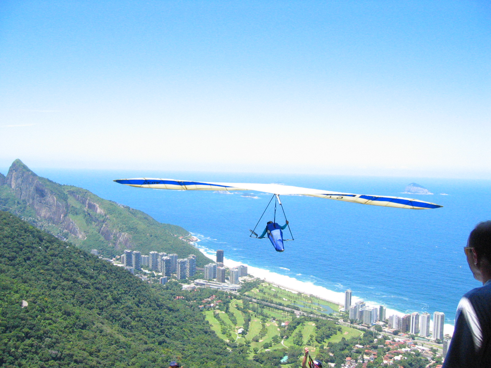 Hang glider launch. Barra, Brasil.